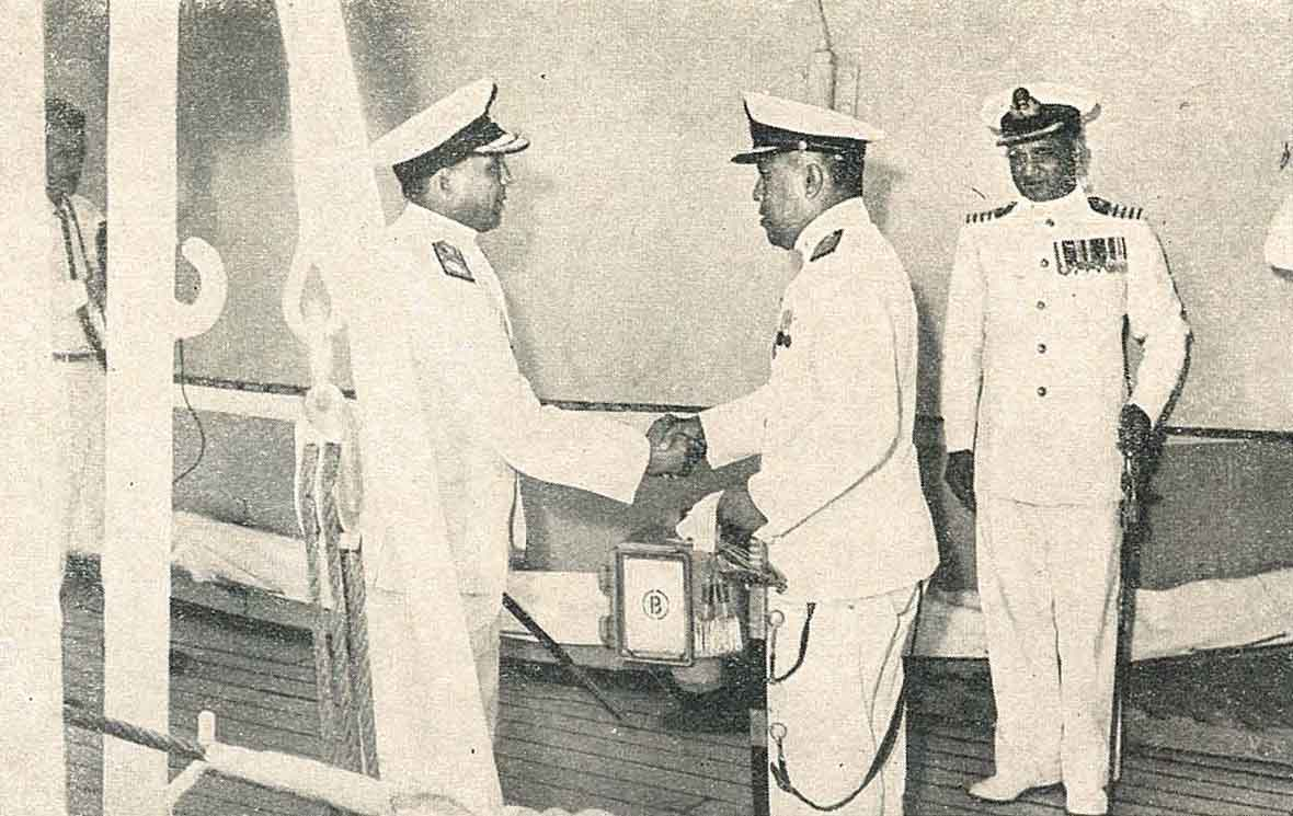 Indonesian Commodore Omar Basri Sjaaf with Indian Admiral Bhaskar Sadashiv Soman